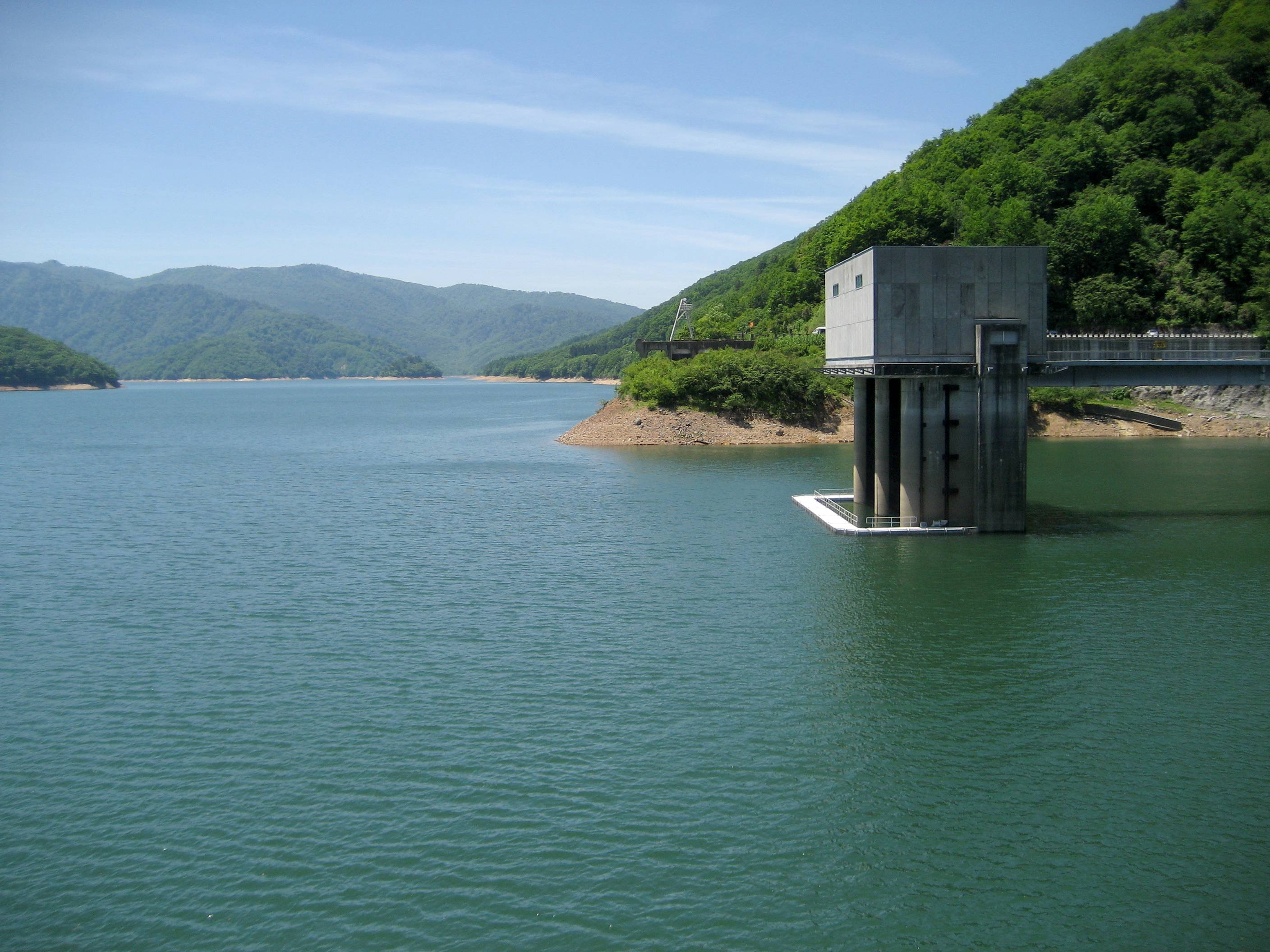 Arimine Dam (有峰ダム) in Toyama city, Toyama prefecture, Japan.